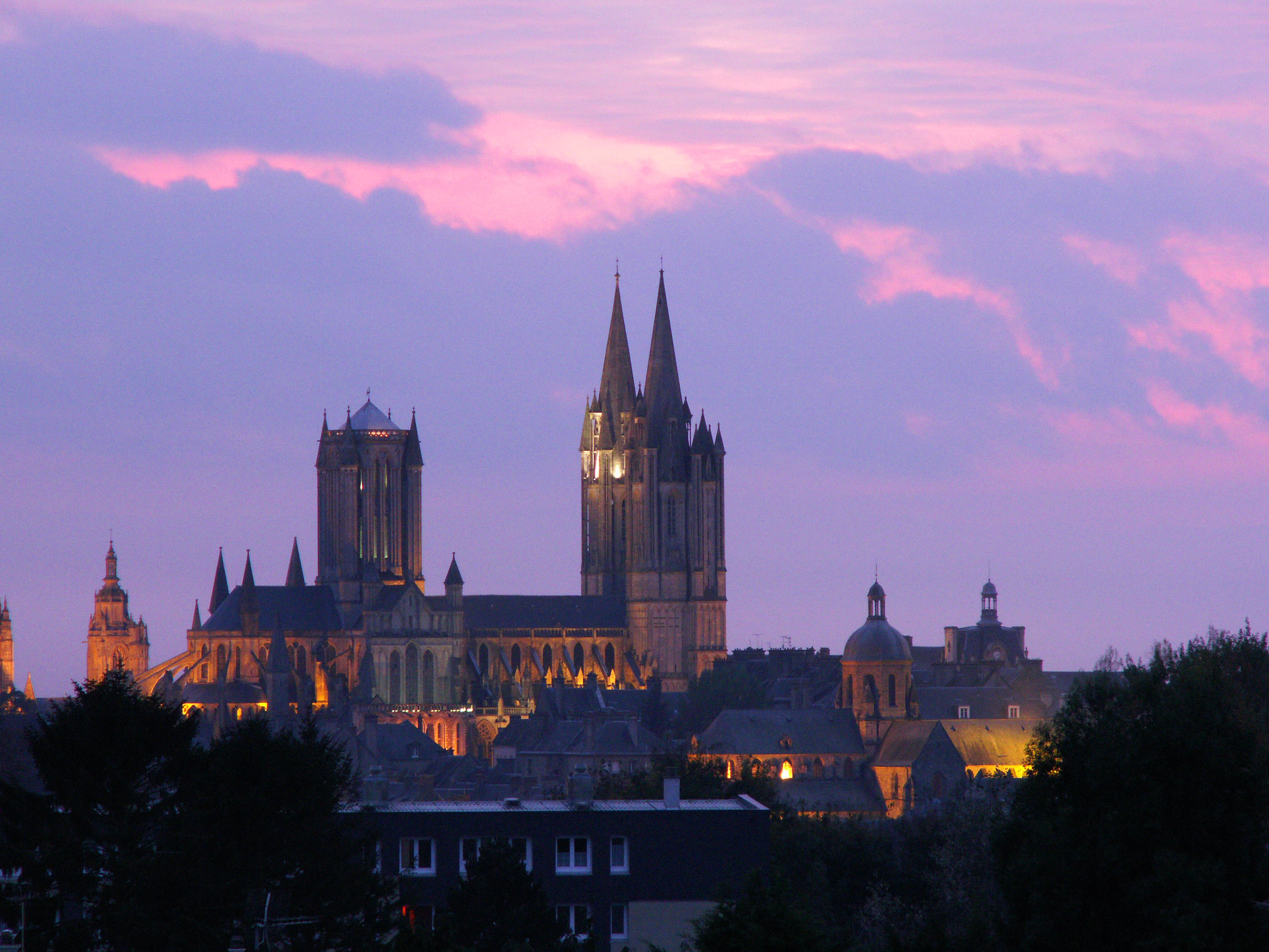 North side of Coutances and its cathedral